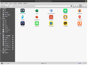 hamonikr-Iphone